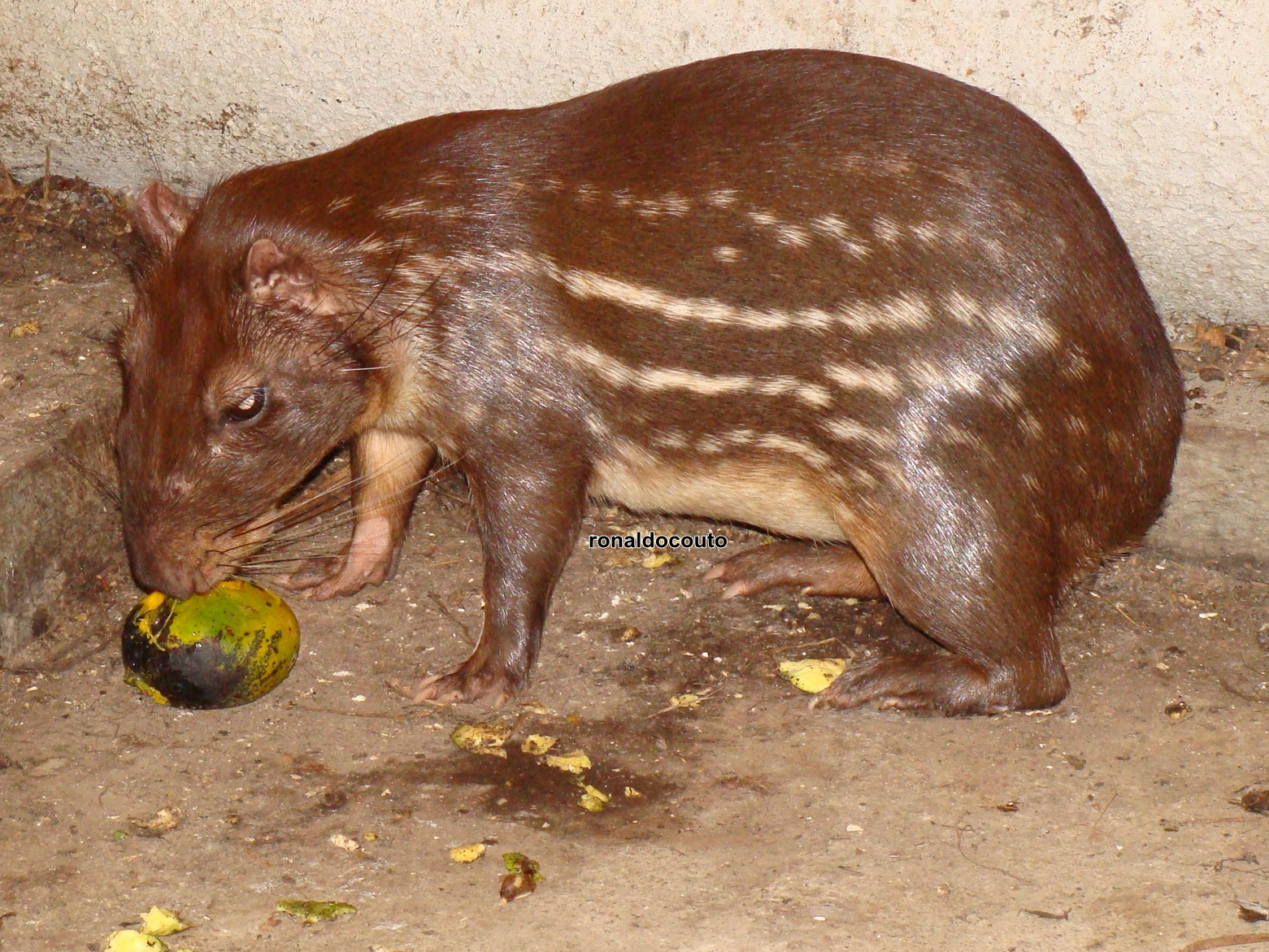 Cuniculus paca